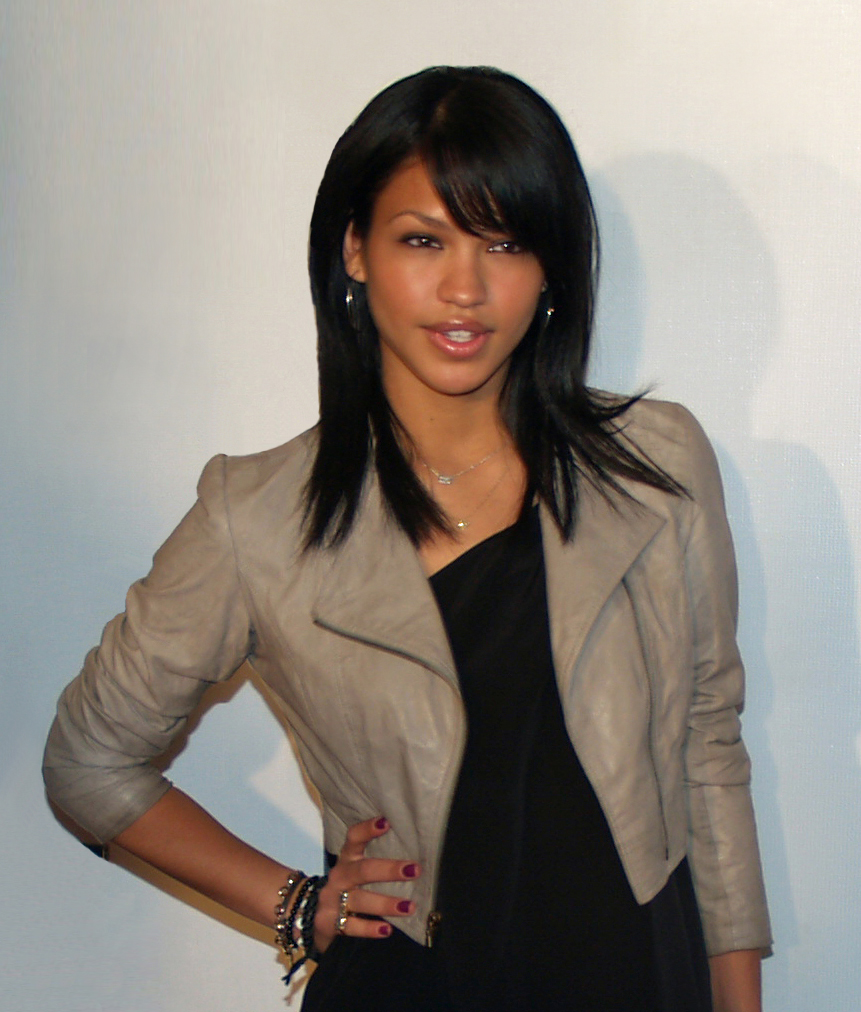 Cassie